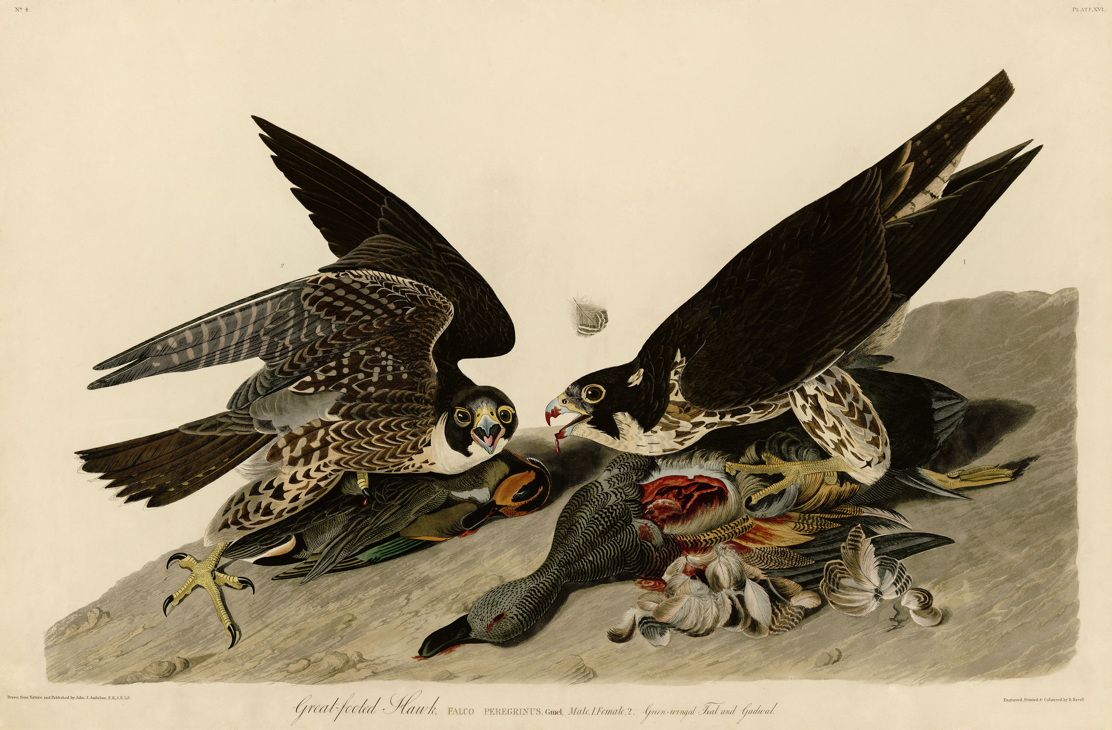 Plate 16 of Birds of America by John James Audubon depicting Great-footed Hawk.